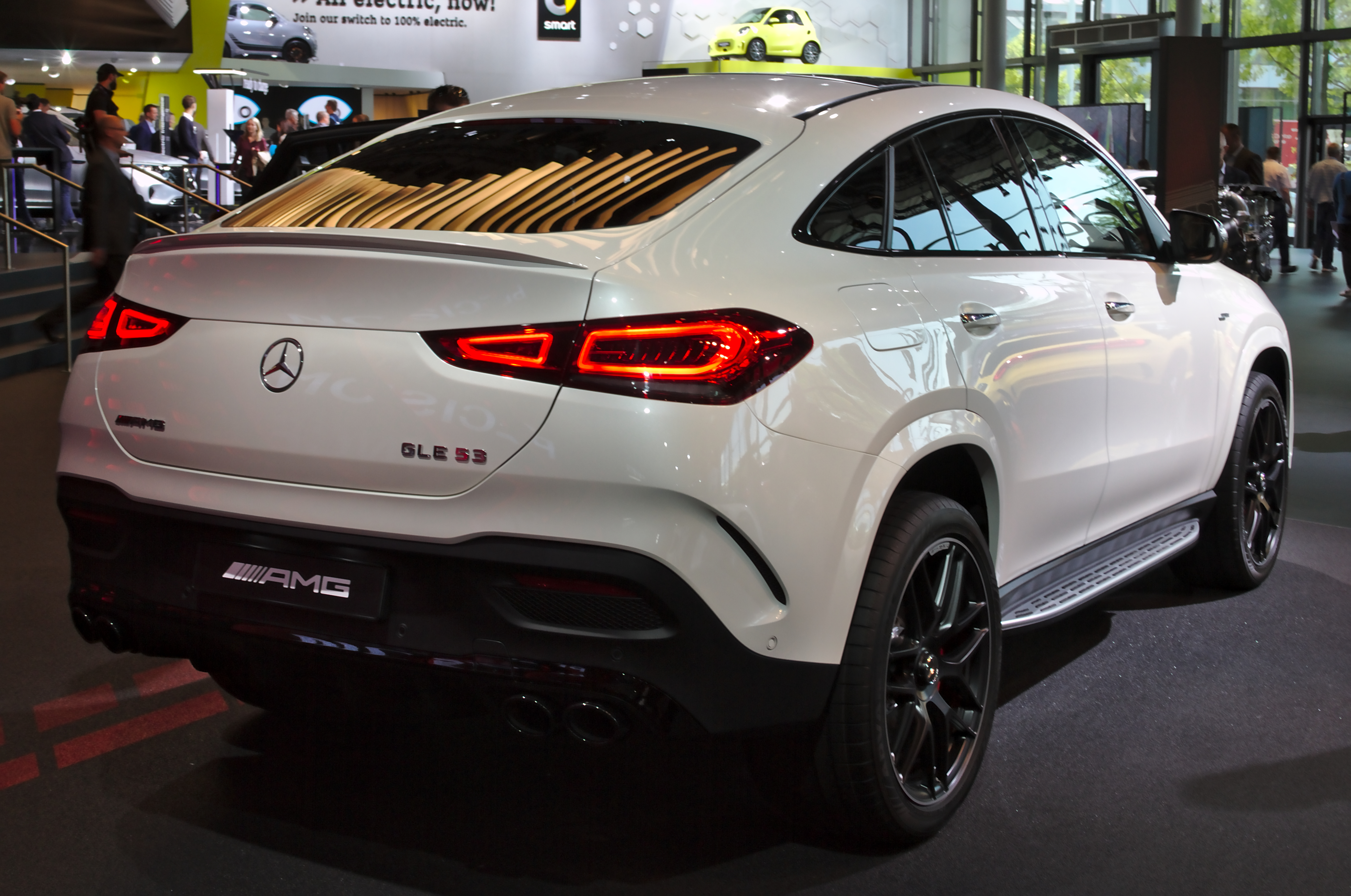 Mercedes-AMG_C167 at IAA 2019